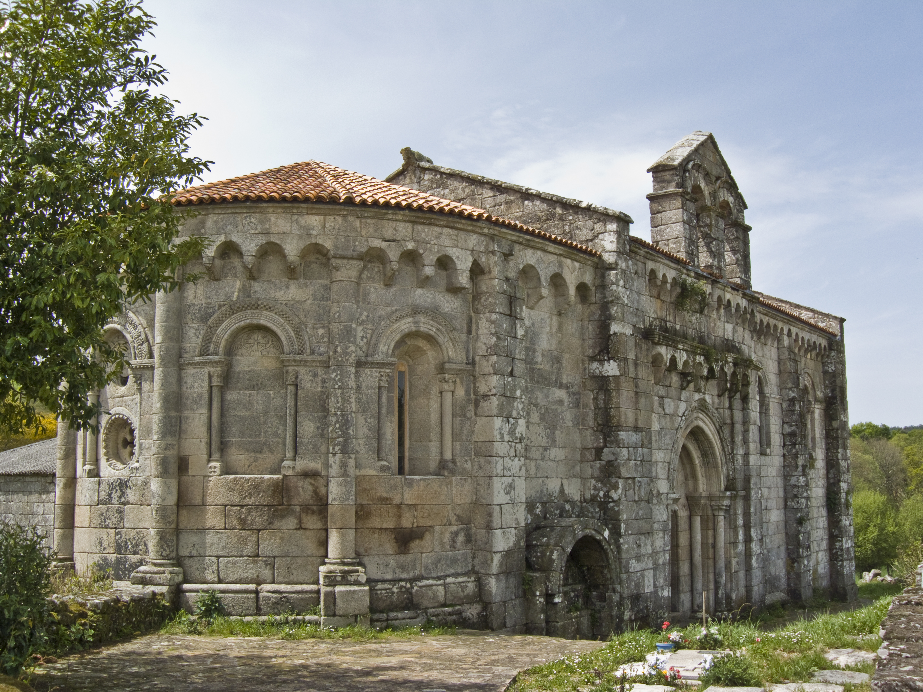 The parochial Church of San Pedro of Dozón. Galicia.